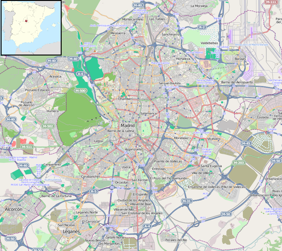 Map of Madrid, Spain Geographic limits of the map: N: 40.522° S: 40.311° W: -3.843° E: -3.534°